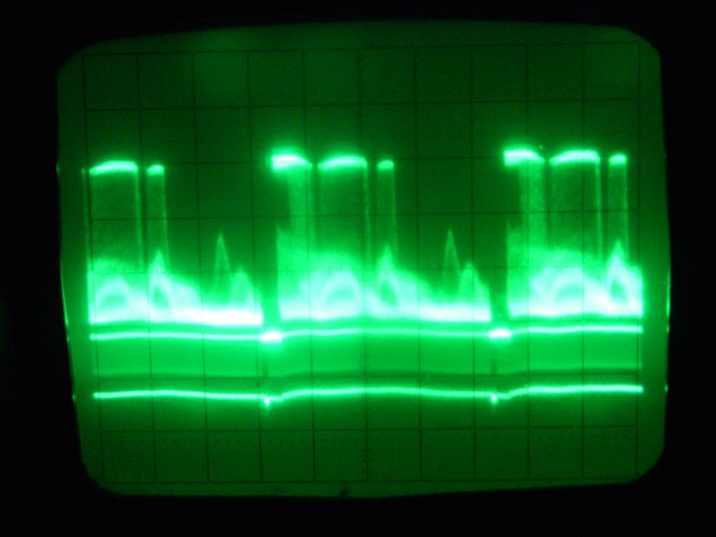 Frame of a PAL videosignal. Shows the individual scan lines and the vertical sync pulses.